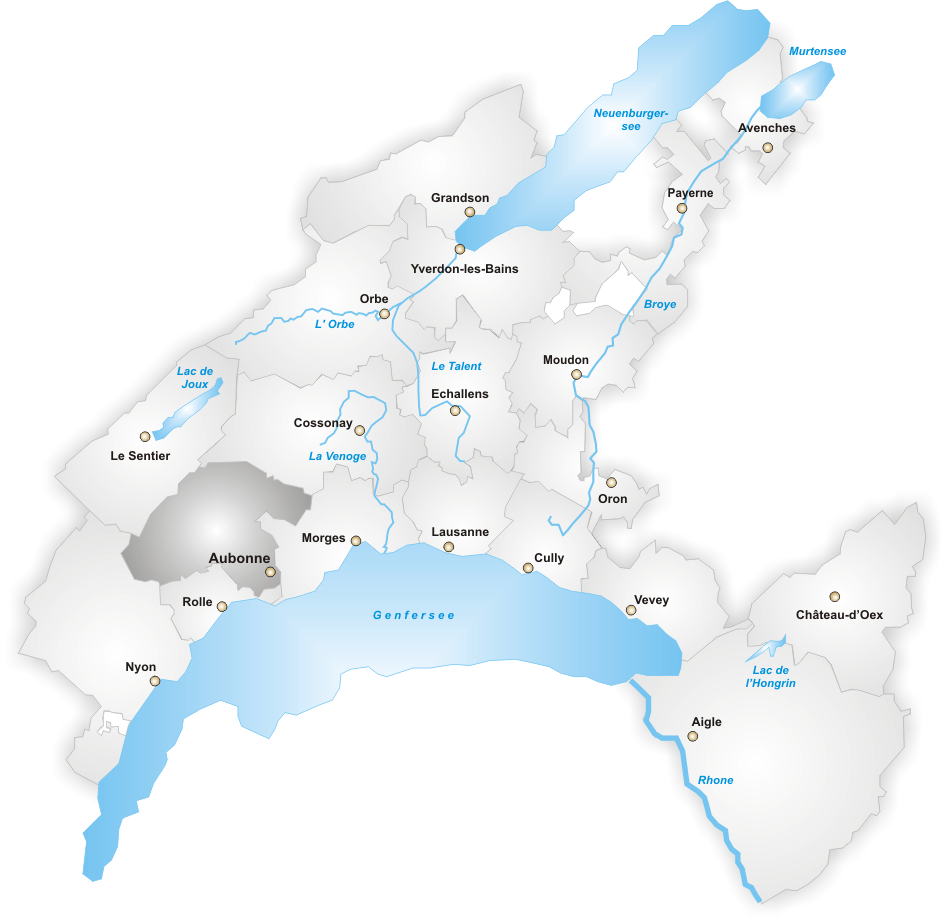 District Aubonne until 2007